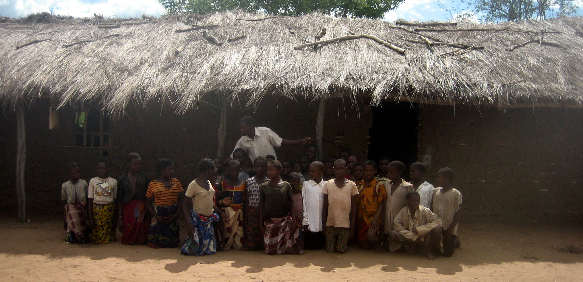 Students outside school in Nampula, Mozambique